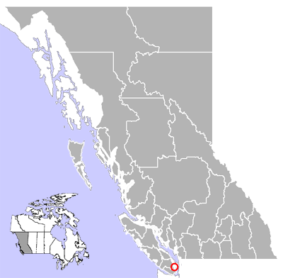 Location of Williams Lake, Capital District, BC